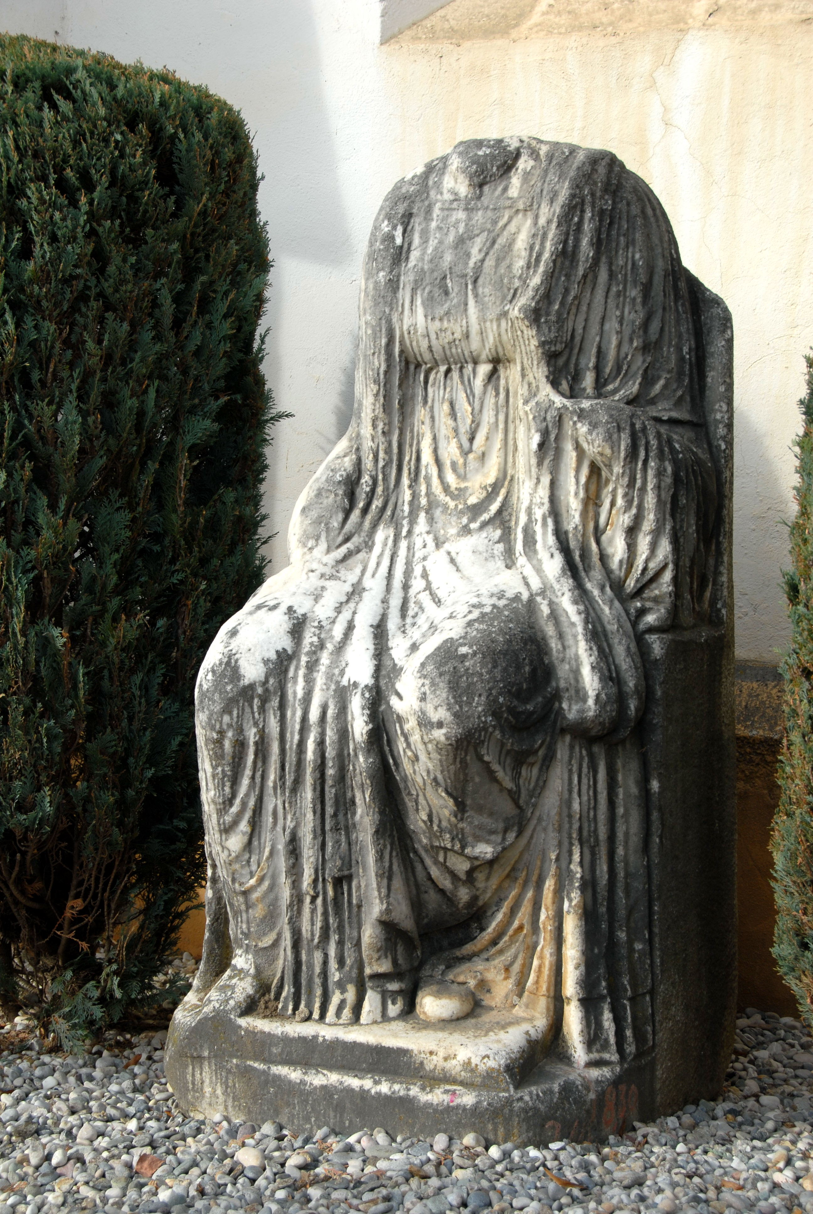 Decapitated Isis Noreia statue in Wieting, municipality Klein Sankt Paul, district Sankt Veit an der Glan, Carinthia / Austria / EU